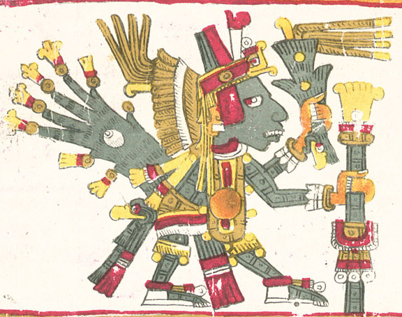 A drawing of Yacatecuhtli, one of the deities described in the Codex Borgia